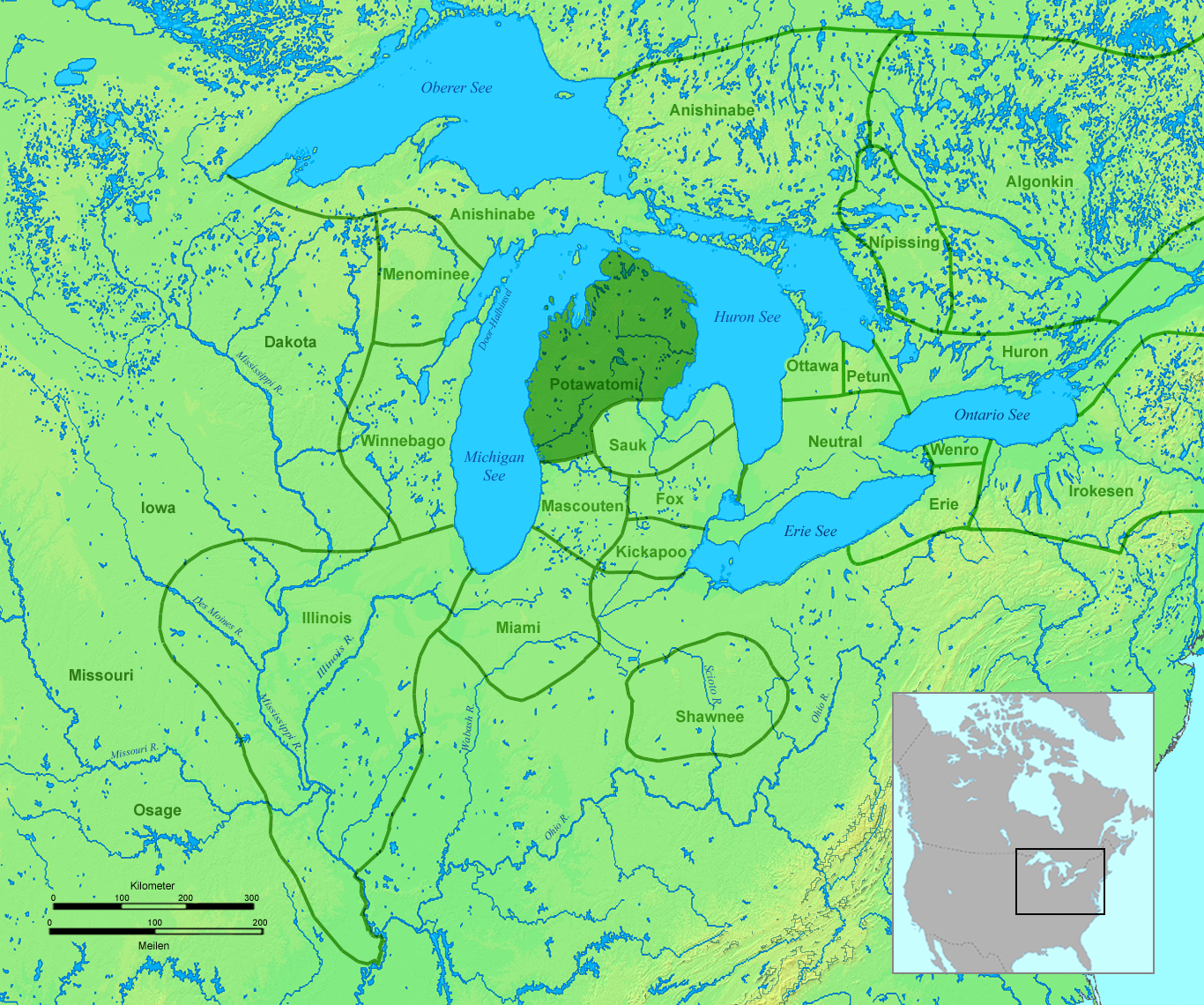 Tribal territory of Potawatomi probably before 1650